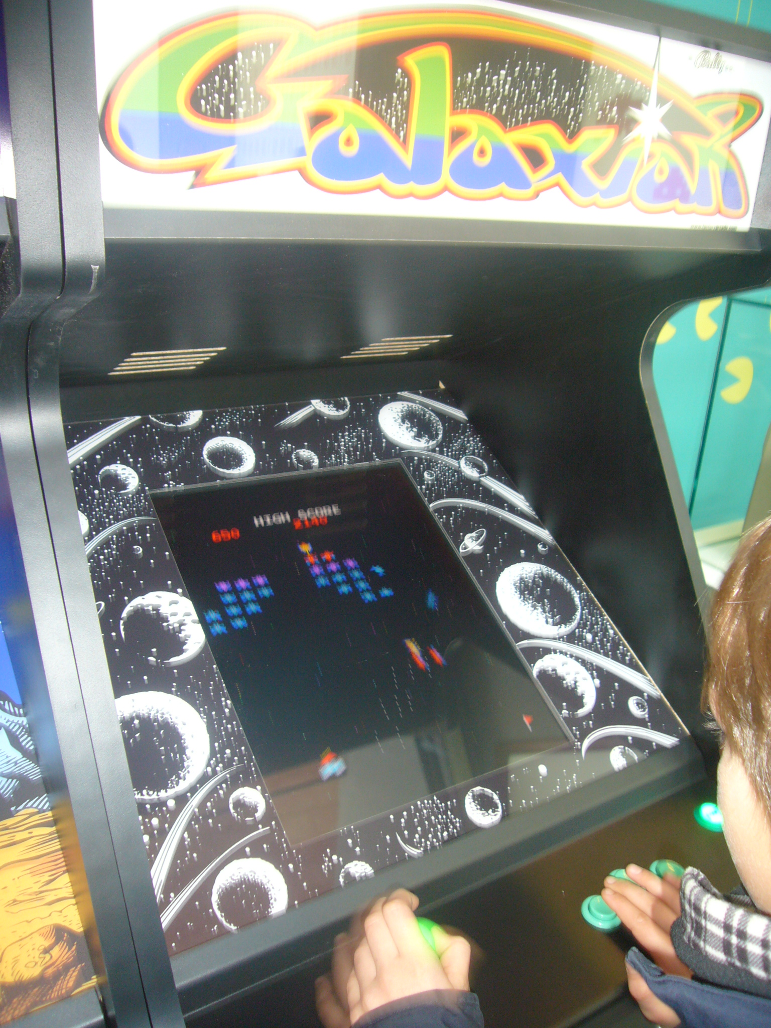 Galaxian arcade game, by Namco. Displayed at the mnactec museum